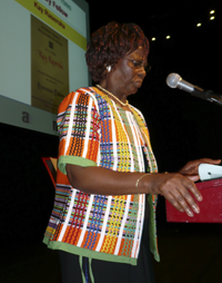 Kay Raseroka to receive Honorary Doctor of Laws in 2010